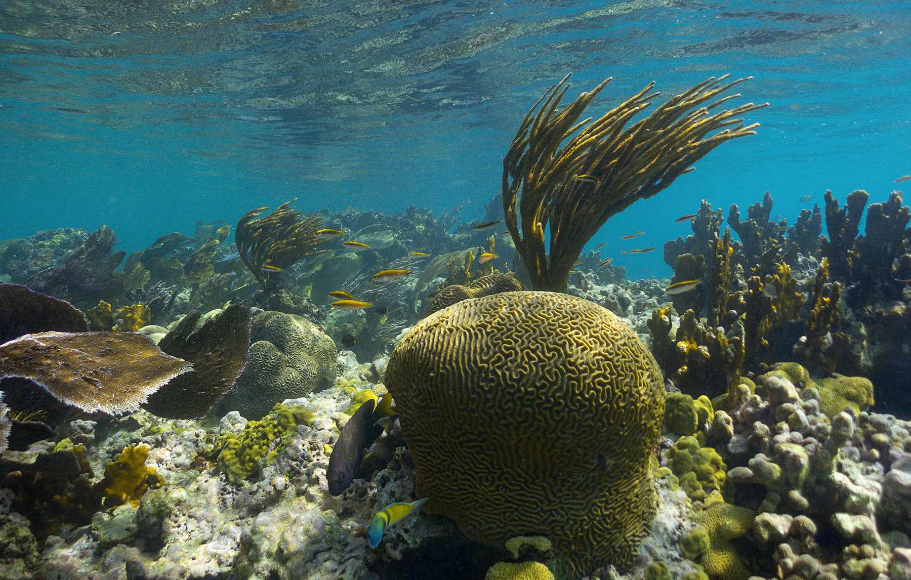 Underwater corals on the Island of Culebra, Puerto Rico